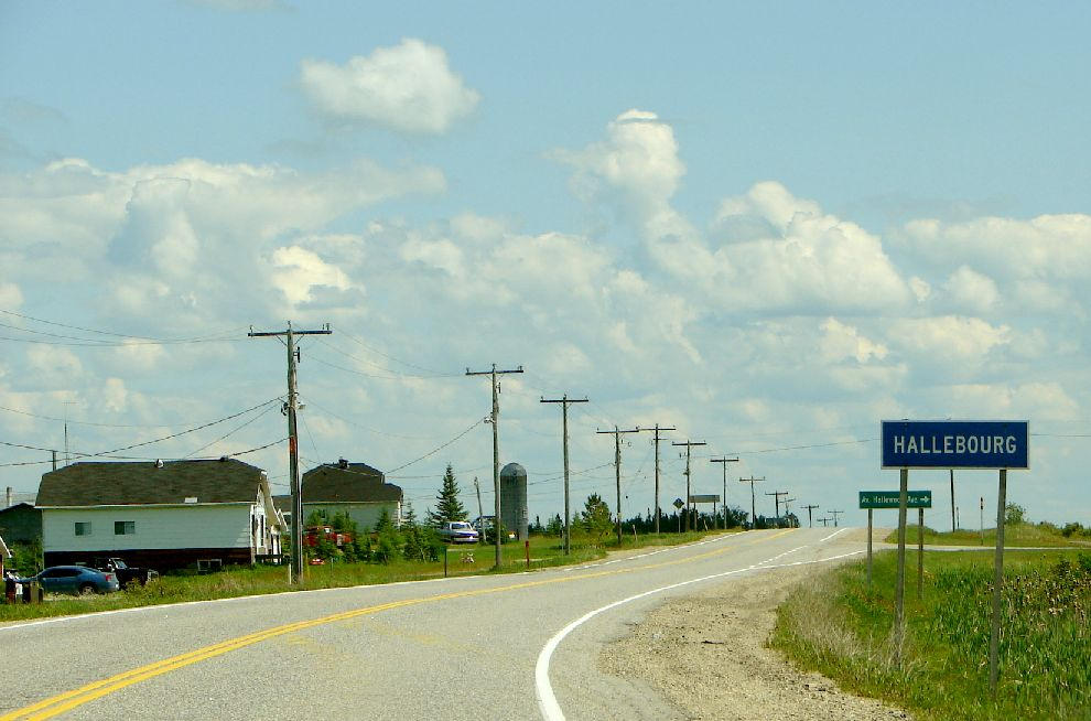 Hallebourg, Ontario, Canada